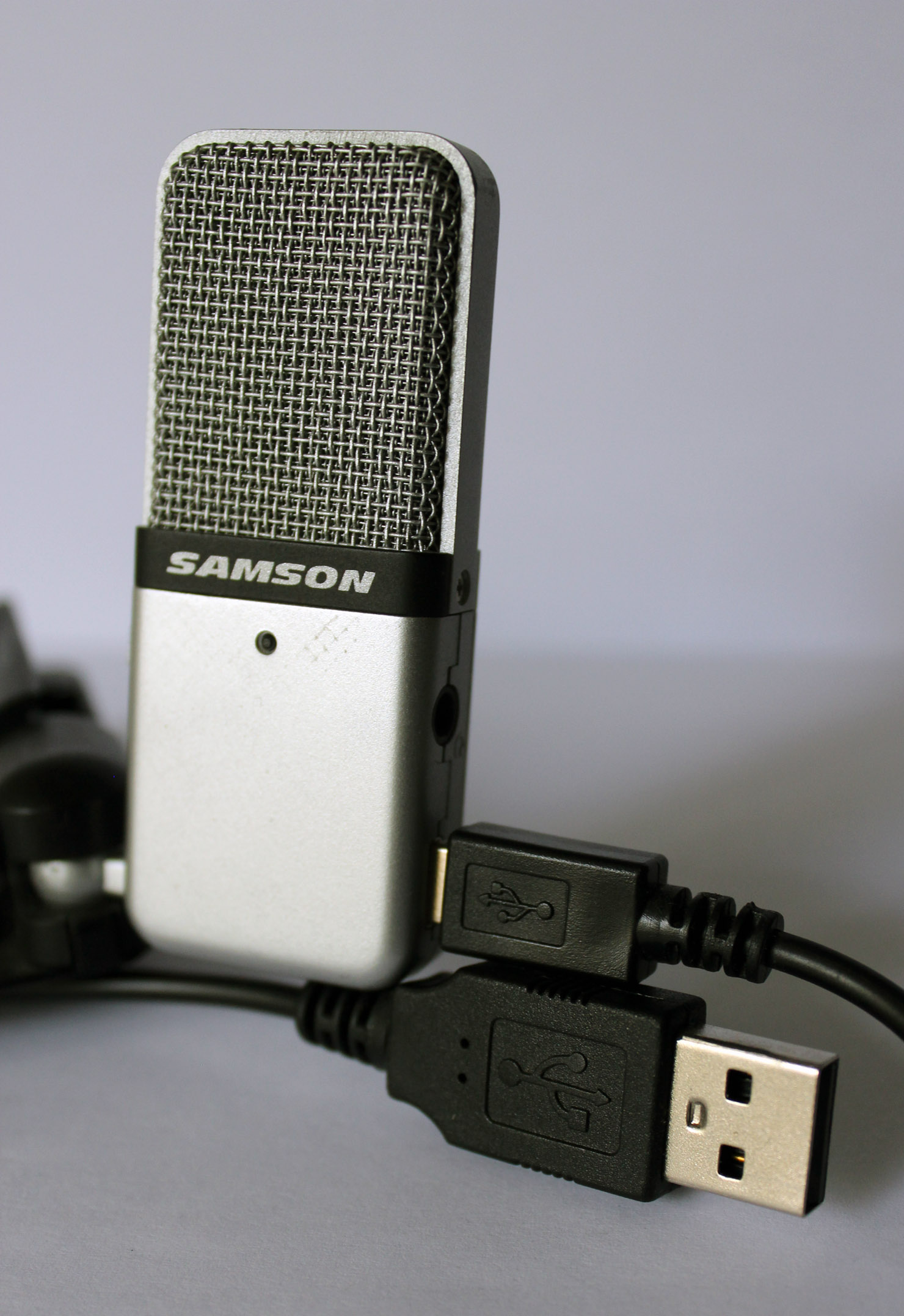 Samson Go Mic Clip-On USB Microphone with USB cable and USB A plug